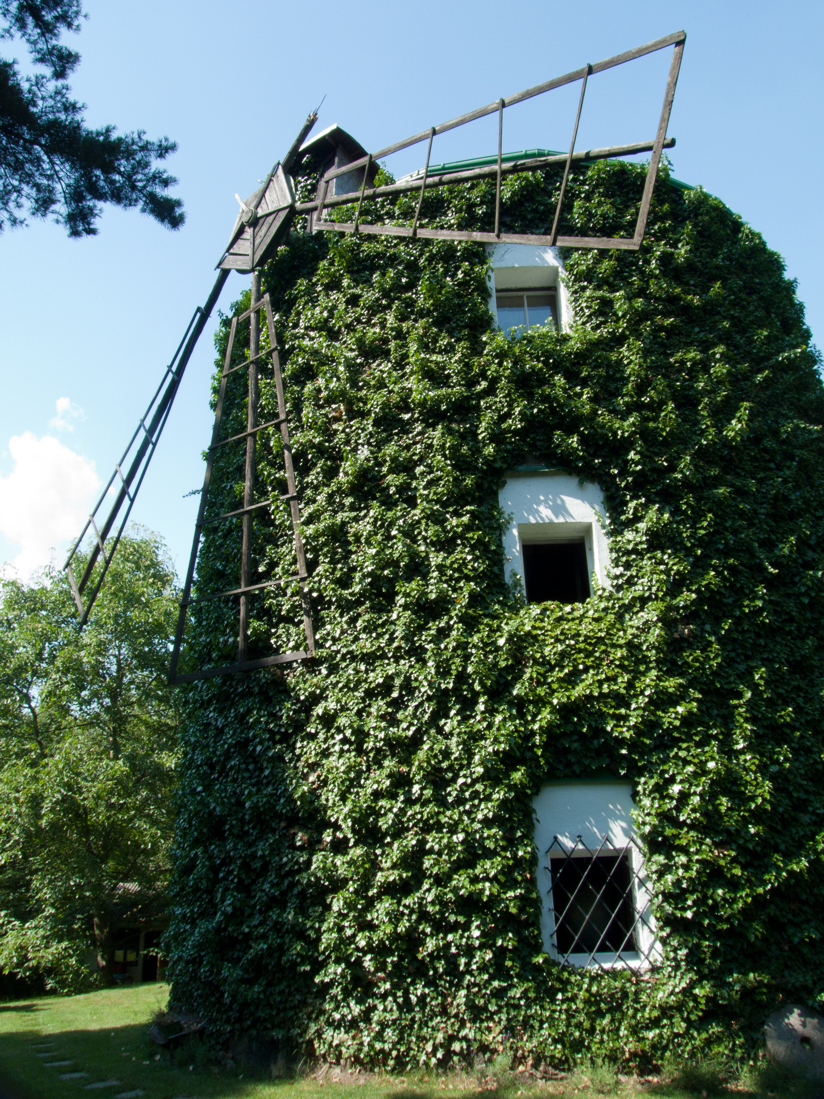 Former windmill in the village of Janov, Děčín District, Czech Republic